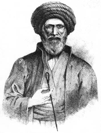 Catholicos Shimun XVII Abraham (1820–60), lithograph (1852). From George Percy Badger, The Nestorians and their Rituals, vol. II, London, 1987